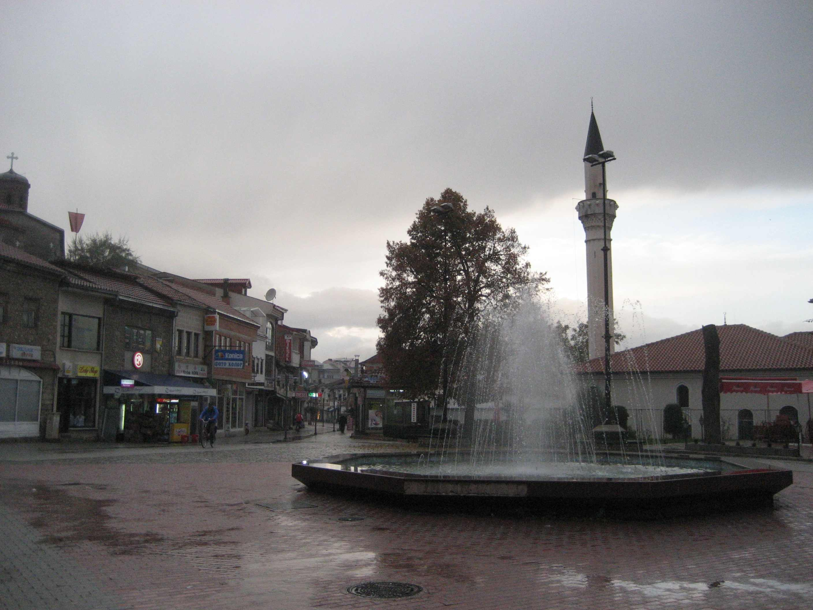 Central Place in Ohrid